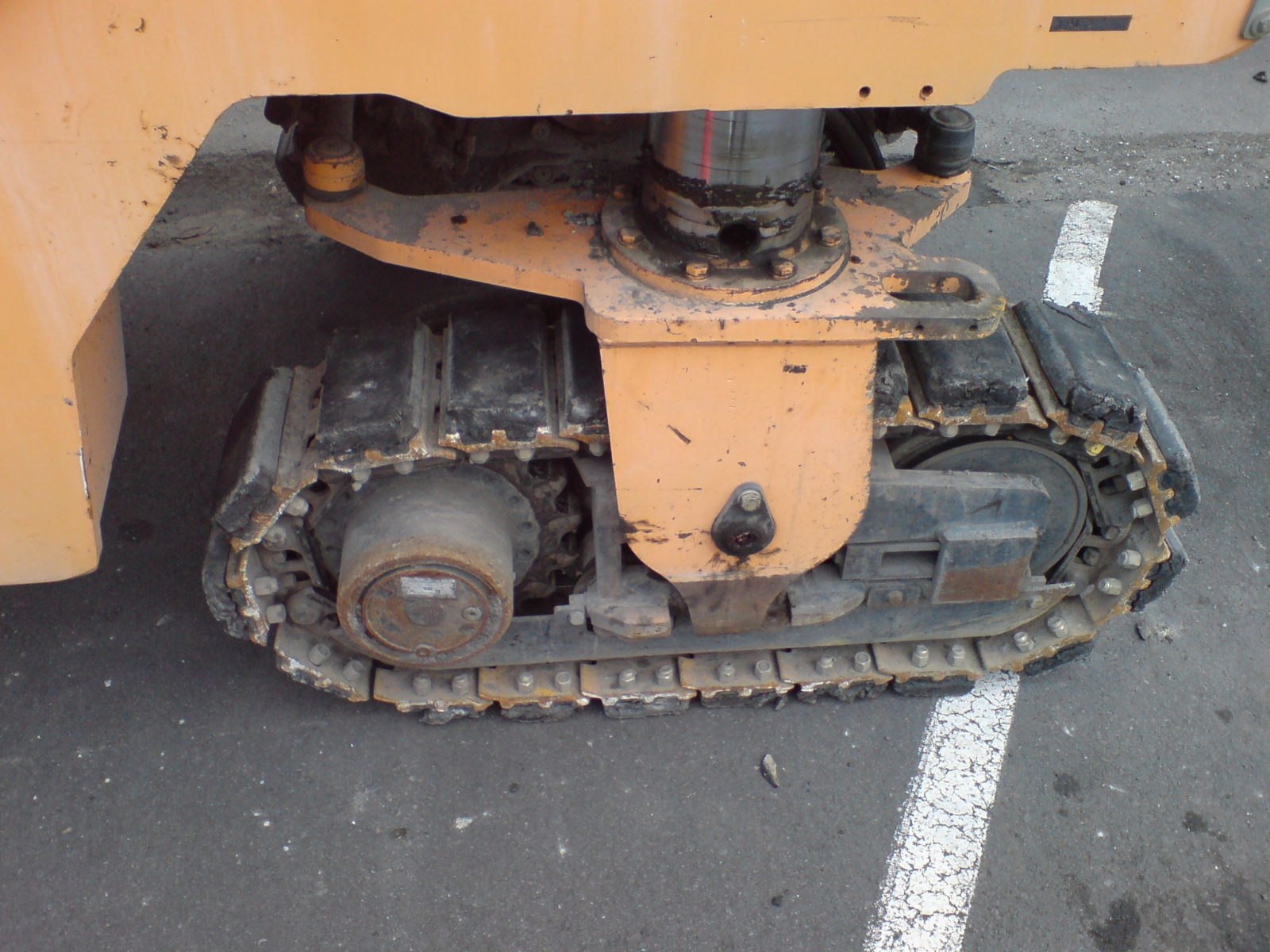 A caterpillar track on a roadworks machine in New Zealand. Note the rubber track pads.